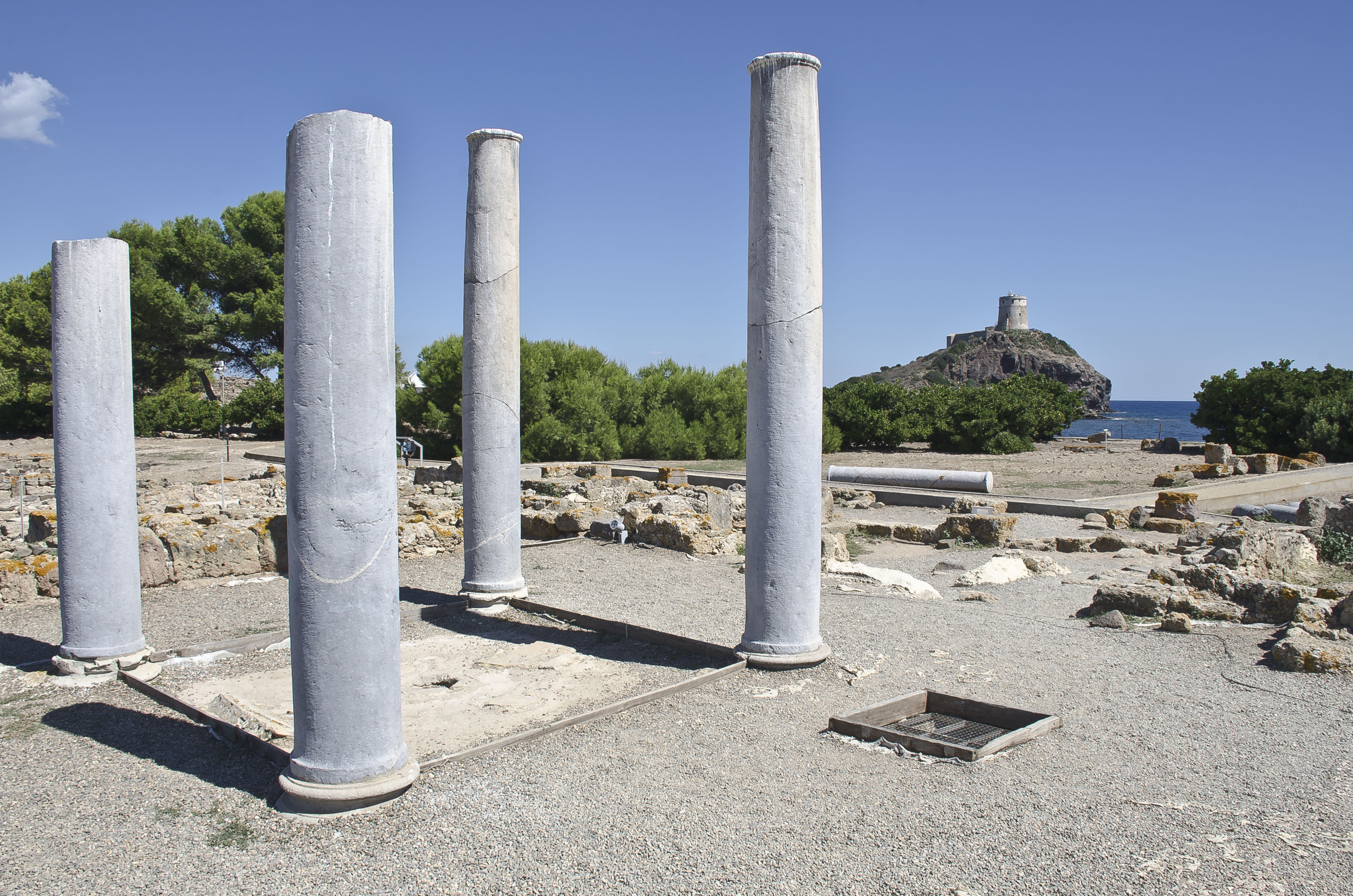 Nora historical site, Sardinia